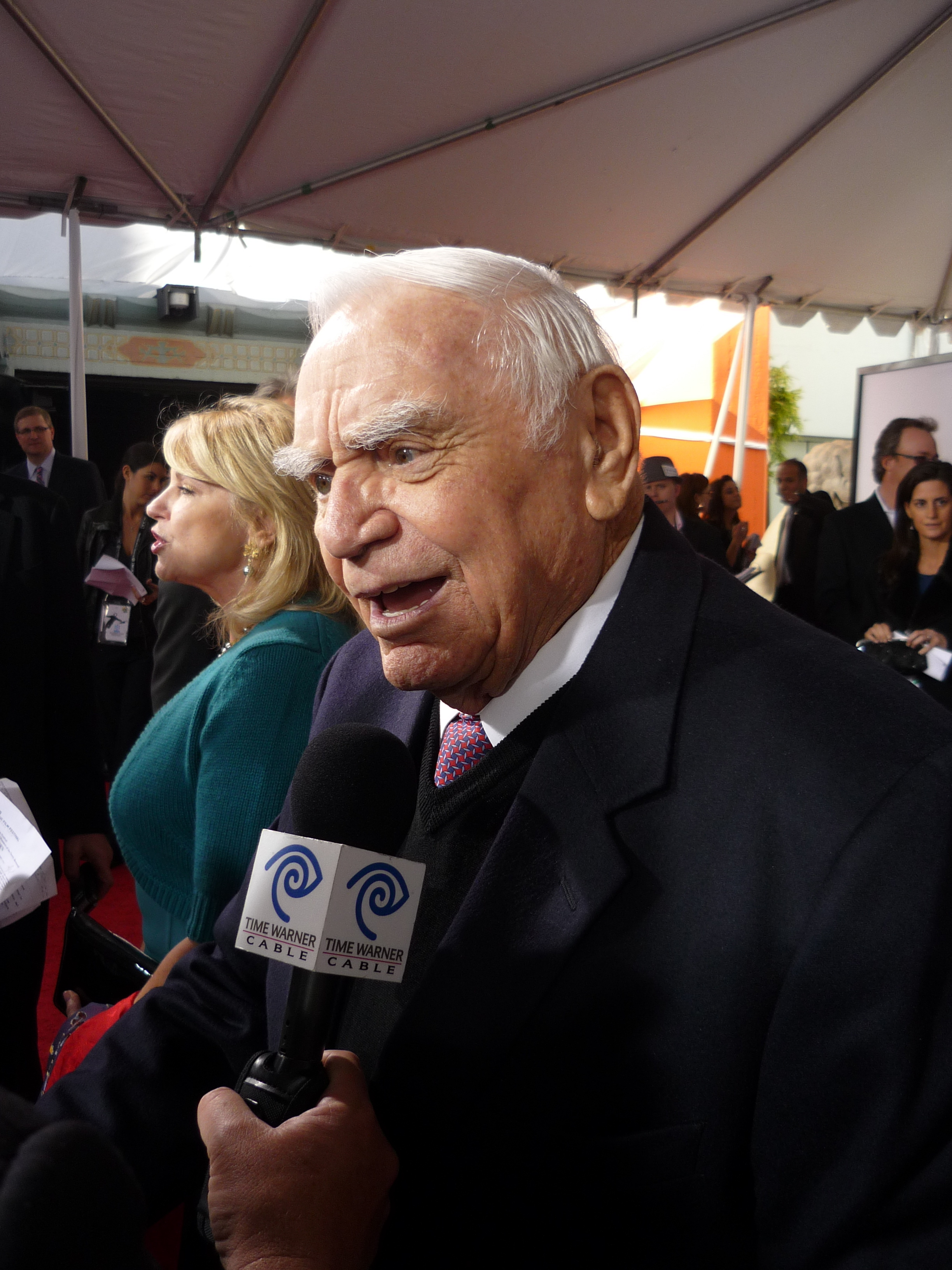 Ernest Borgnine at the TCM Classic Film Festival in April 2010.